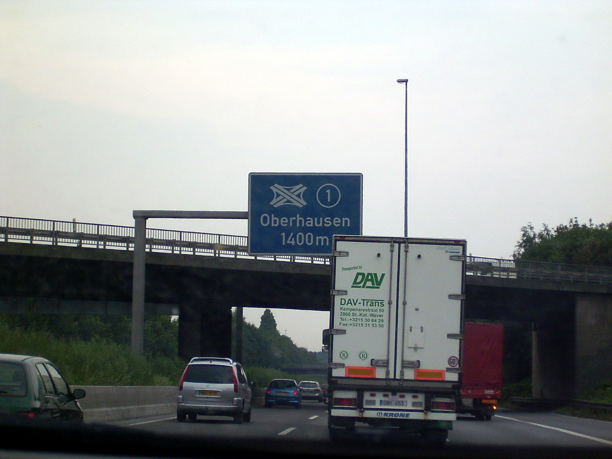 The Bundesautobahn 2 at Interchange Oberhausen.